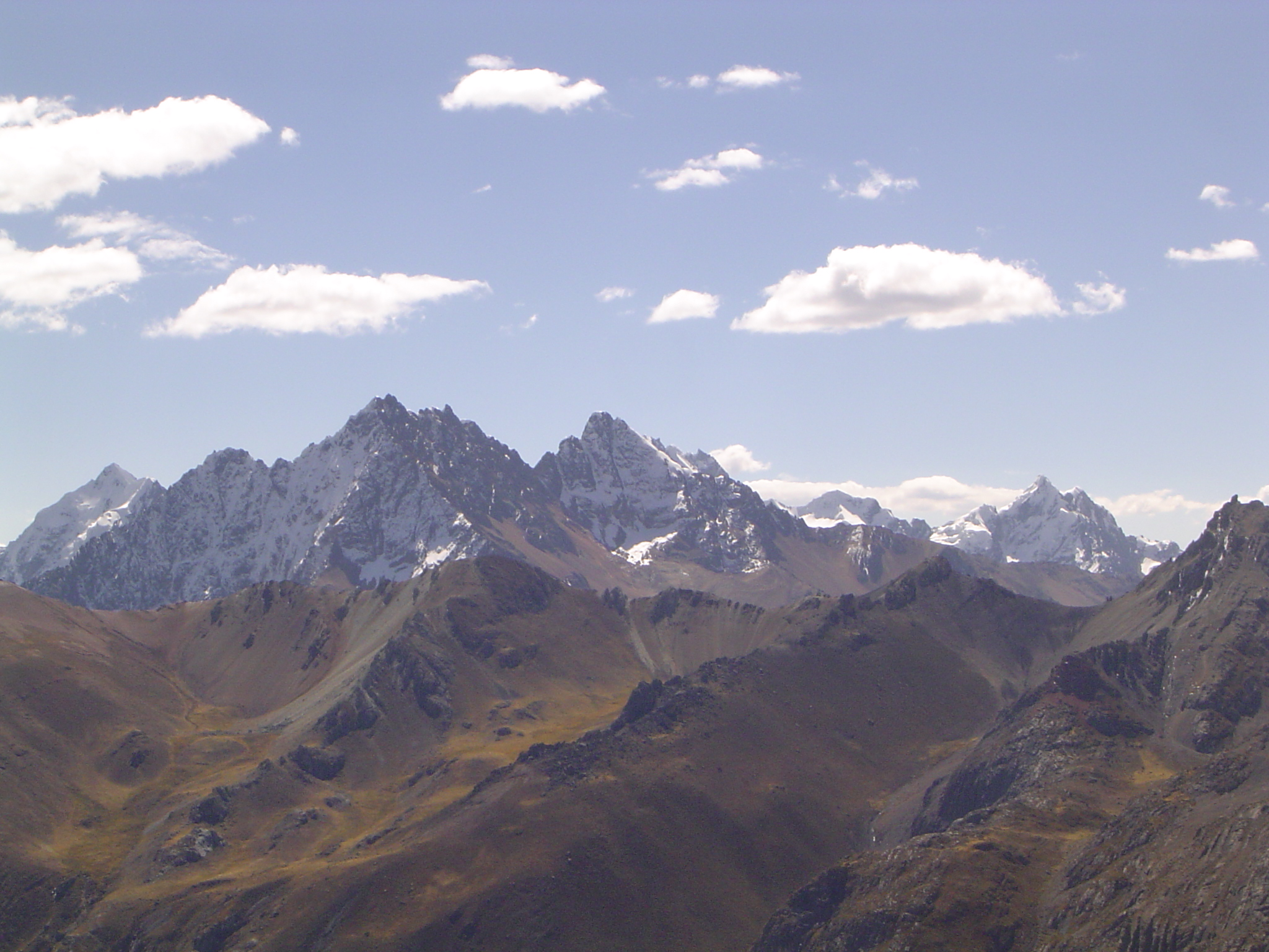 Climber Joe Simpson famously crawled back to safety in these peaks.